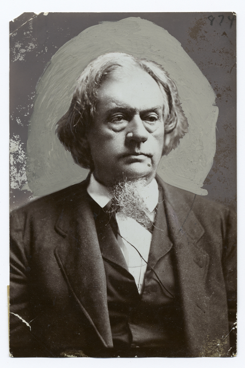 Robert Toombs, New York Public Library's The Pageant of America archive, v. 9 "Makers of a new nation", Item/Page/Plate 9.13